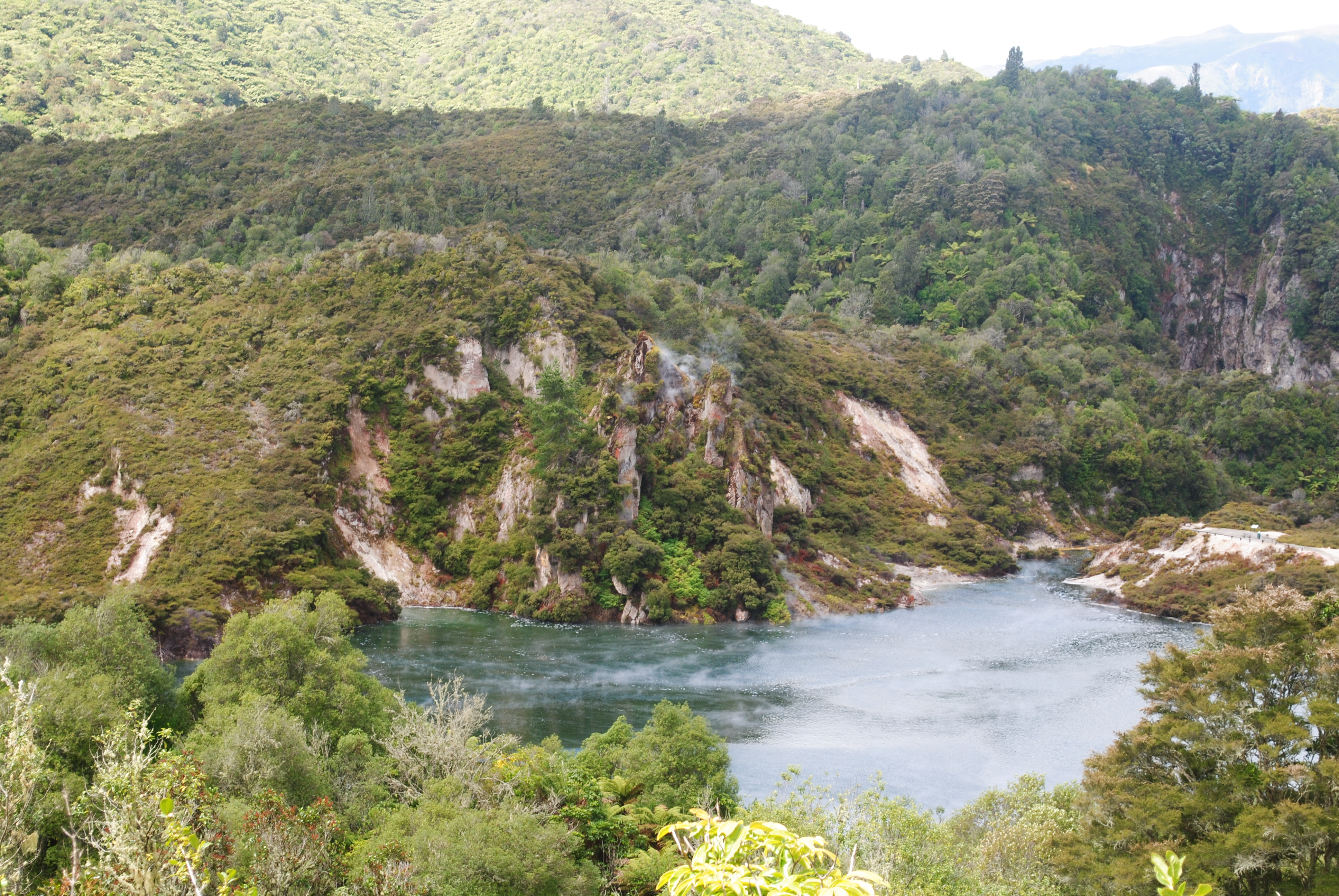 Echo Crater and Frying pan lake, Cathedral rocks in Waimangu Volcanic Rift Valley near Rotorua, New Zealand. Steam is visible on the lake and about the thermal vent.